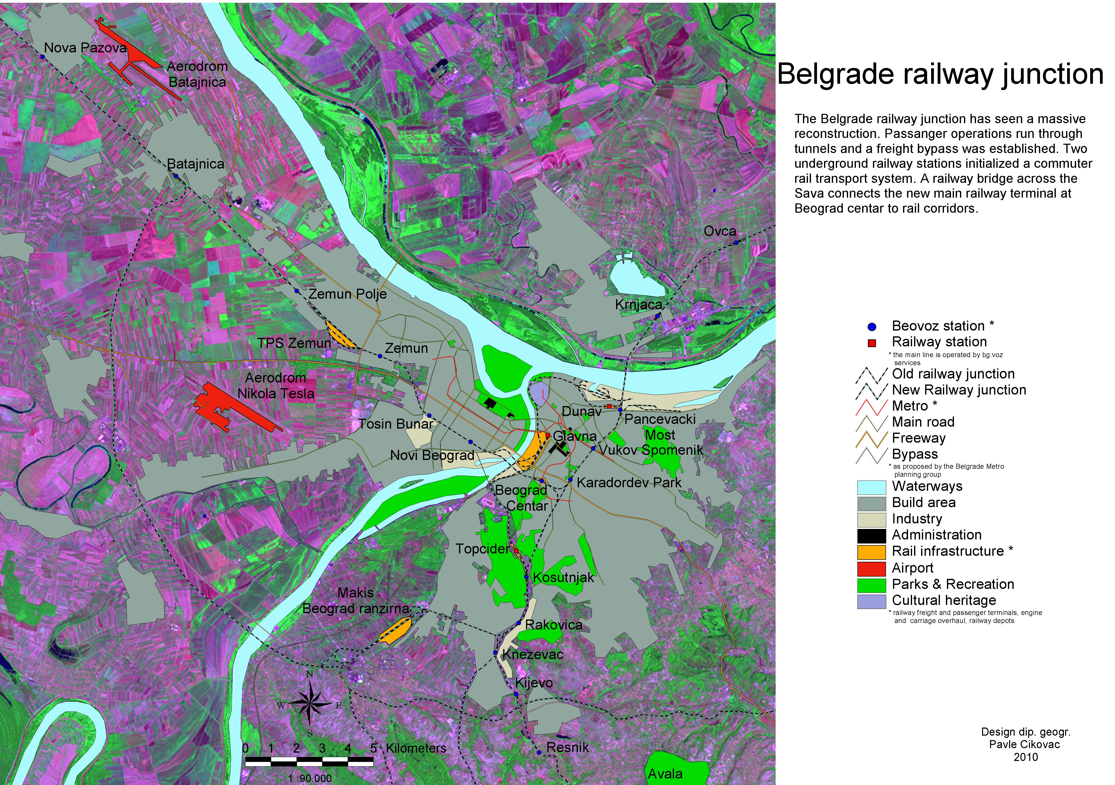 Public transportation mode in Belgrade, Serbia. Parts of the bypass are under construction, also the railway junction has been completed by 90 %. The Metro plan 1982 shows the final plan from Branislav Jovin head of the Metro planning group of Belgrade. The plan will eventually be base for the future developpment of the Belgrade Metro.